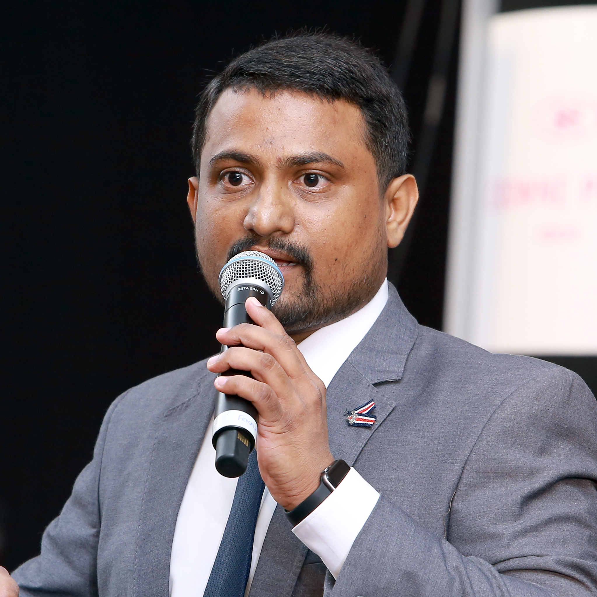 Ansif Ashraf doing keynote of DittoTV at 5th KSBEA Awards 2016.